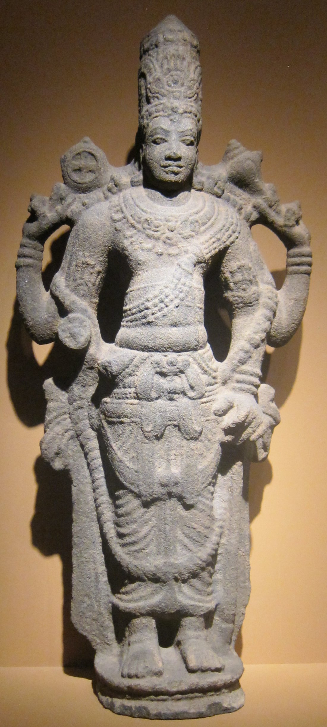 Vishnu India, Tanjore, Tamil Nadu, Pallava dynasty, 8th-9th century Granite Honolulu Academy of Arts Gift of The Christensen Fund, 2001 (10670.1)